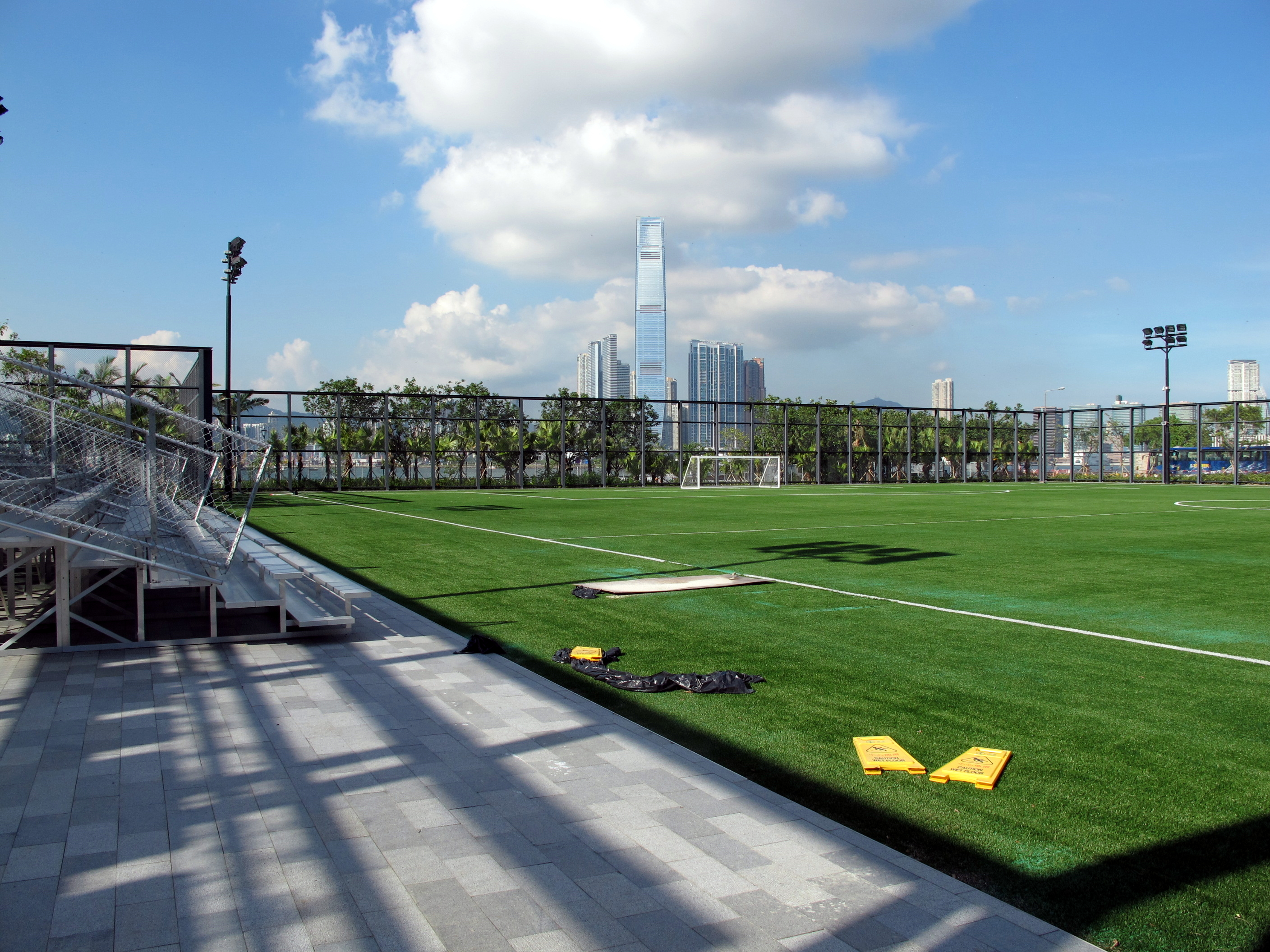 Sun Yat Sen Memorial Park Soccer Pitch